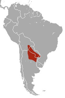 Common Fat-tailed Mouse Opossum (Thylamys pusillus) range